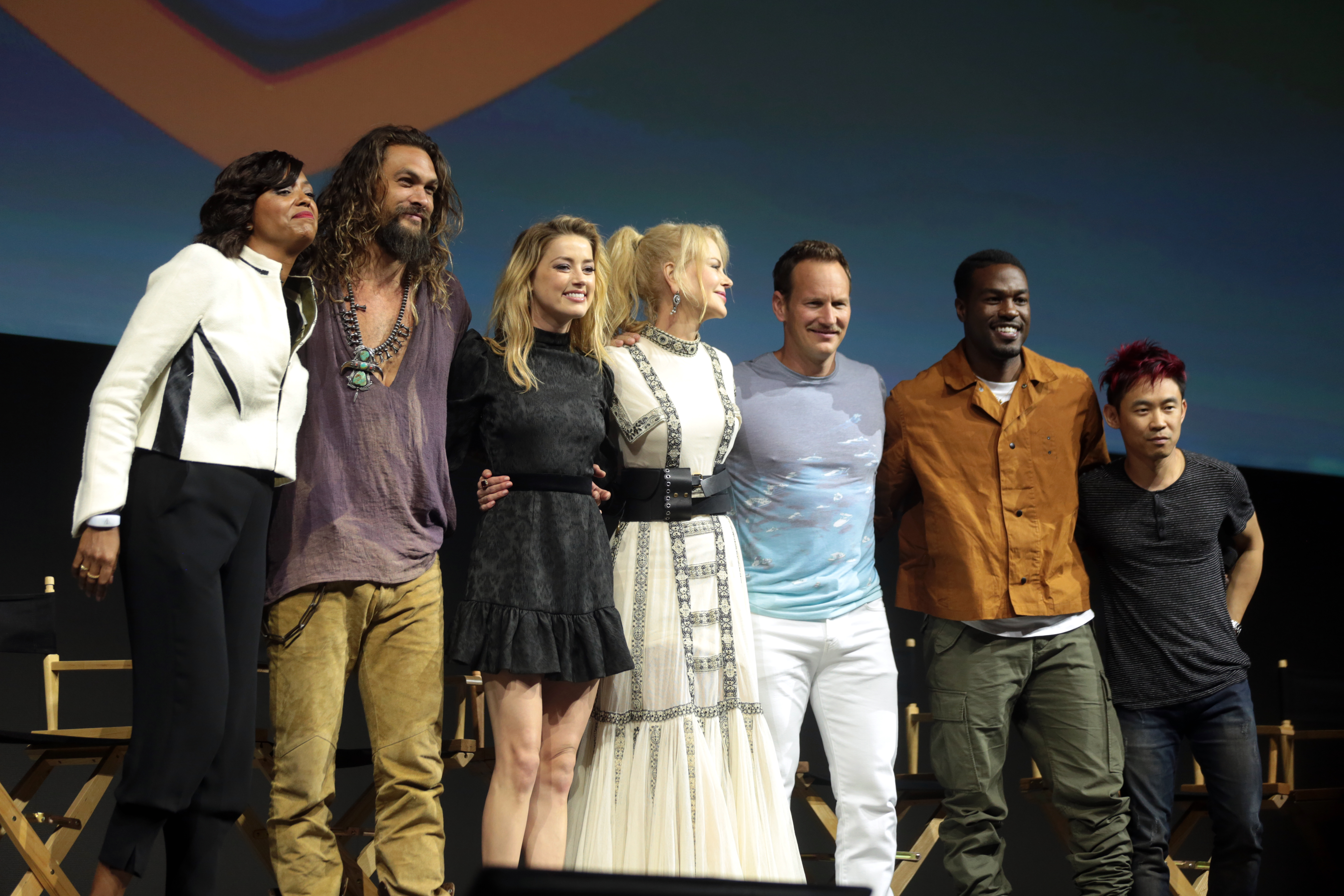 Aisha Tyler, Jason Momoa, Amber Heard, Nicole Kidman, Patrick Wilson, Yahya Abdul-Mateen II and James Wan speaking at the 2018 San Diego Comic Con International, for "Aquaman", at the San Diego Convention Center in San Diego, California.